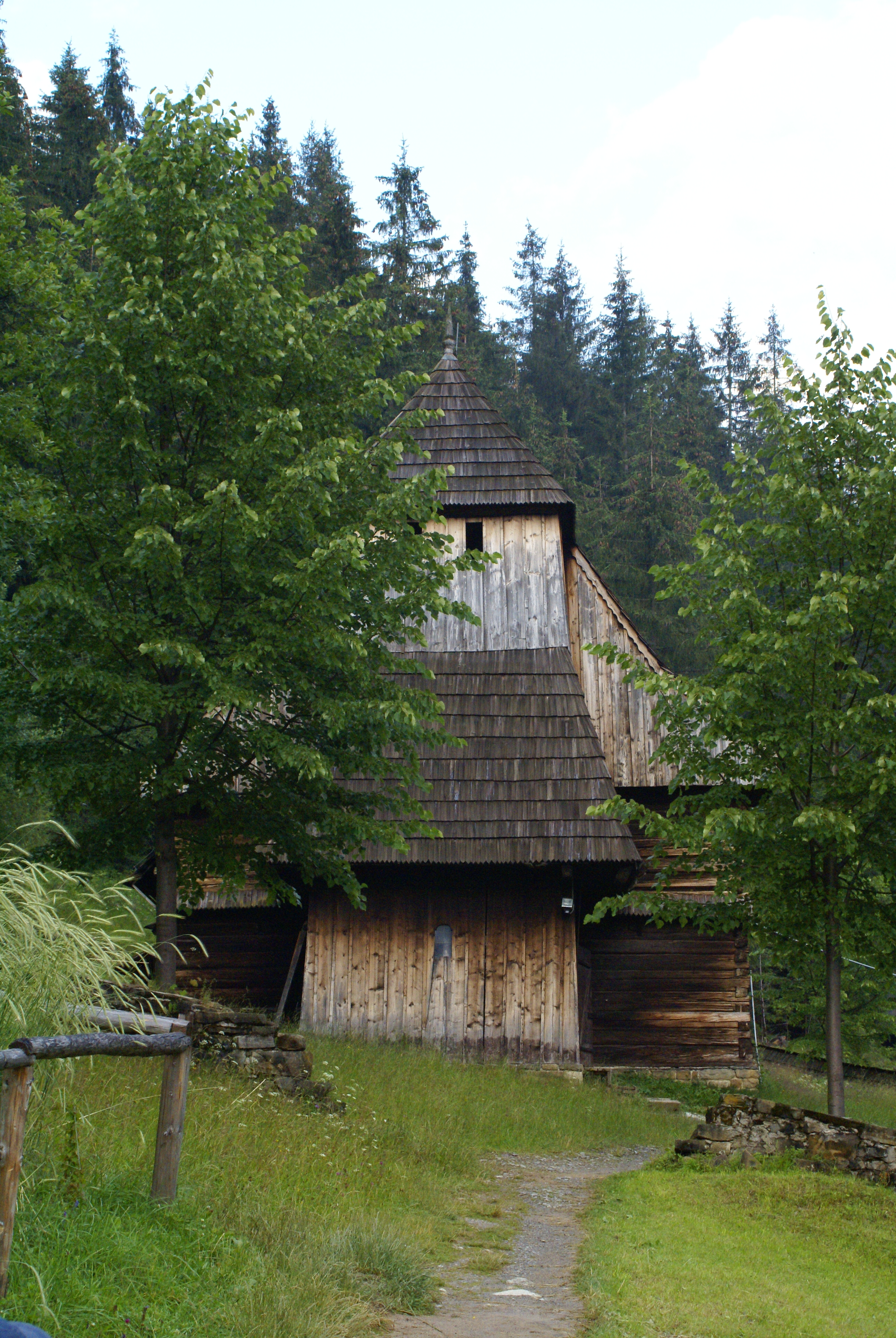 Open air museum of typical slovakian old Orava village, Zuberec, West Tatras, Slovak Republic